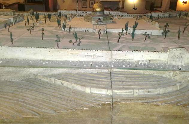 The Haram-es-Sharif at Jerusalem in 1879. The model is made by Conrad Schick for a World Exhibition in Austria. Schick was the city architect in Jerusalem during the ruling of the Turkish governor. The model can be seen at the Biblical Museum in Amsterdam